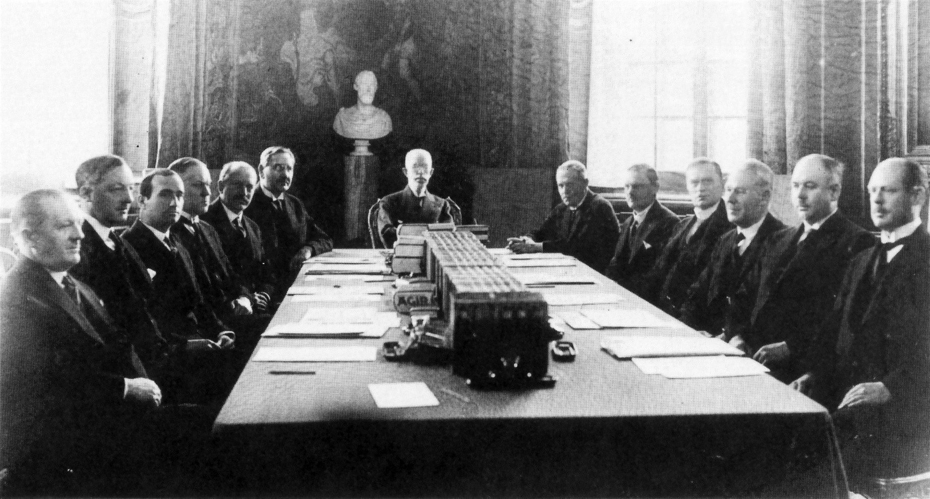 Carl Gustaf Ekman's second cabinet (1930-1932) in a cabinet meeting with King Gustav V at Stockholm Palace. From left: Minister for Trade David Hansén, Minister without Portfolio Åke Holmbäck, Minister without Portfolio Ragnar Gyllenswärd, Minister for Agriculture Bo von Stockenström, Minister for Justice Natanael Gärde, Prime Minister Carl Gustaf Ekman, King Gustav V, Minister for Foreign Affairs Fredrik Ramel, Minister for Finance Felix Hamrin, Minister for Eclesiastic Affairs Sam Stadener, Minister for Social Affairs Sam Larsson, Minister for Communications Ola Jeppsson, Minister for Defense Anton Rundqvist.